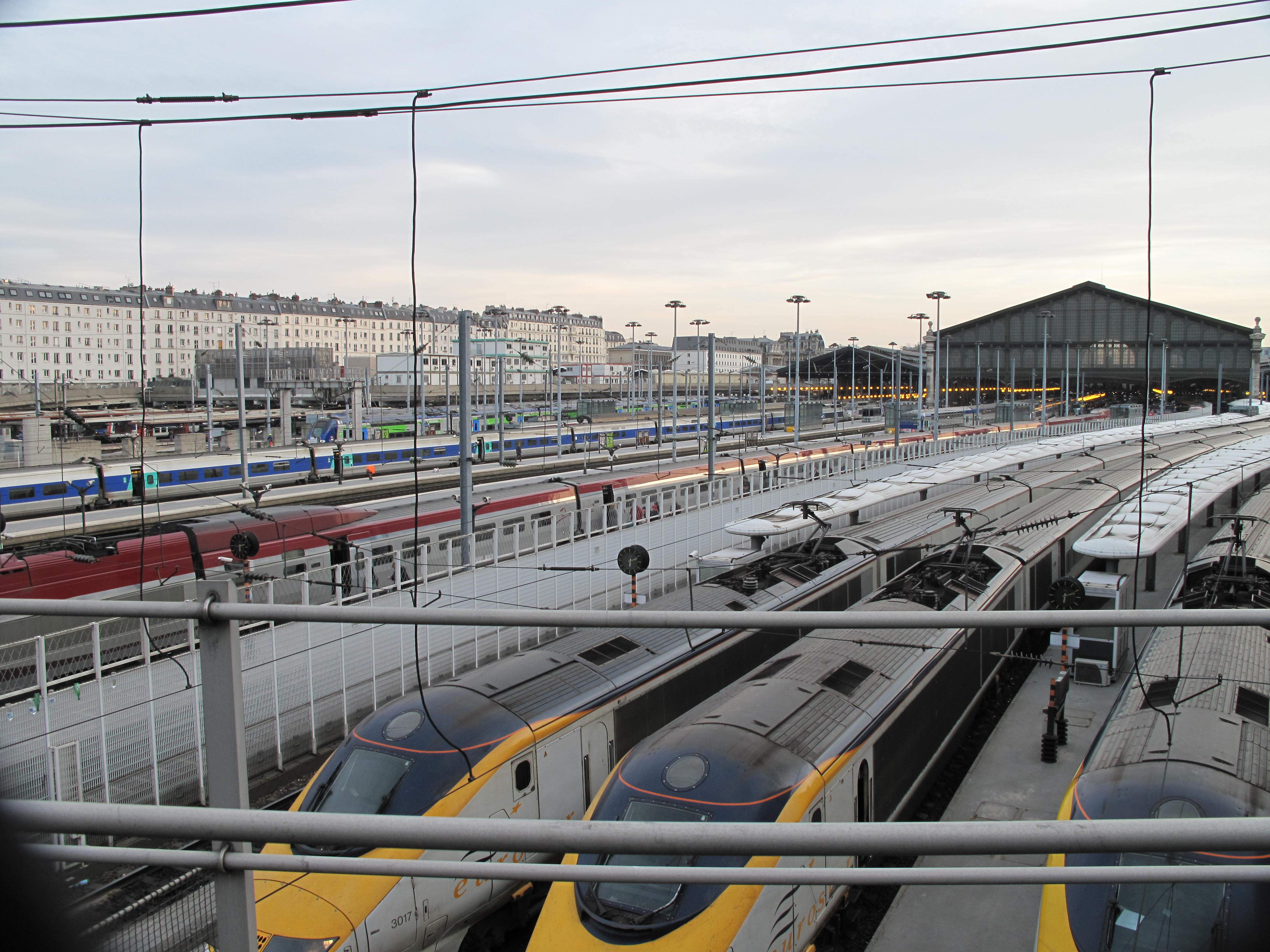 The tracks of the gare du Nord (Paris, France), with the Eurostars.